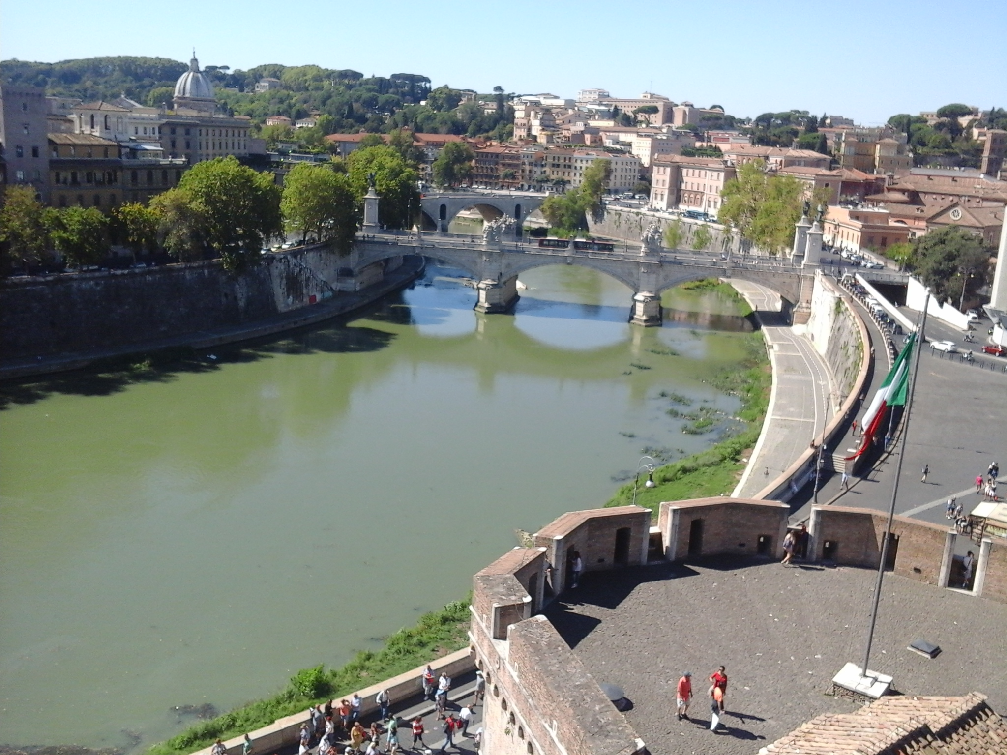 Rome